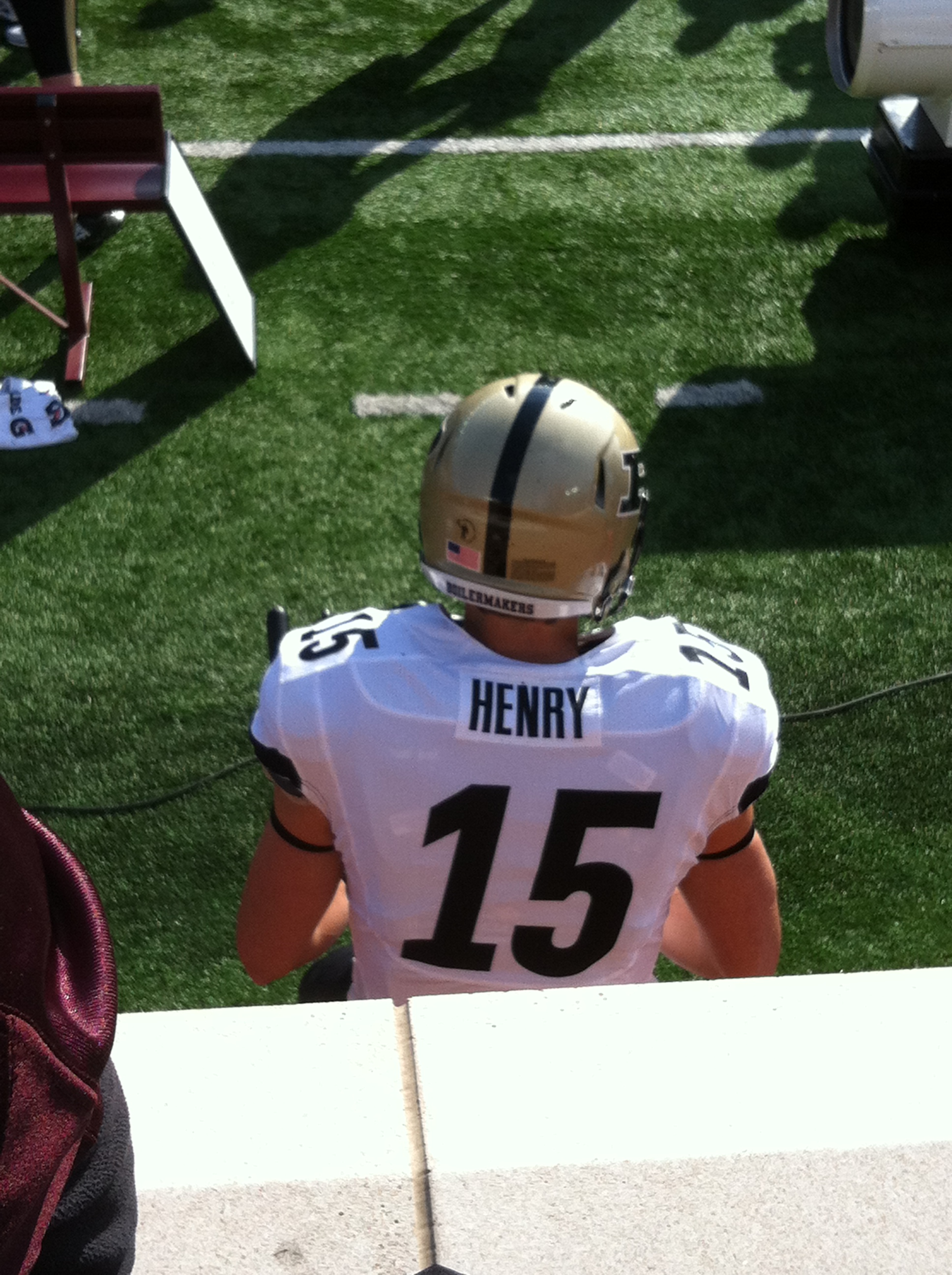 Rob Henry